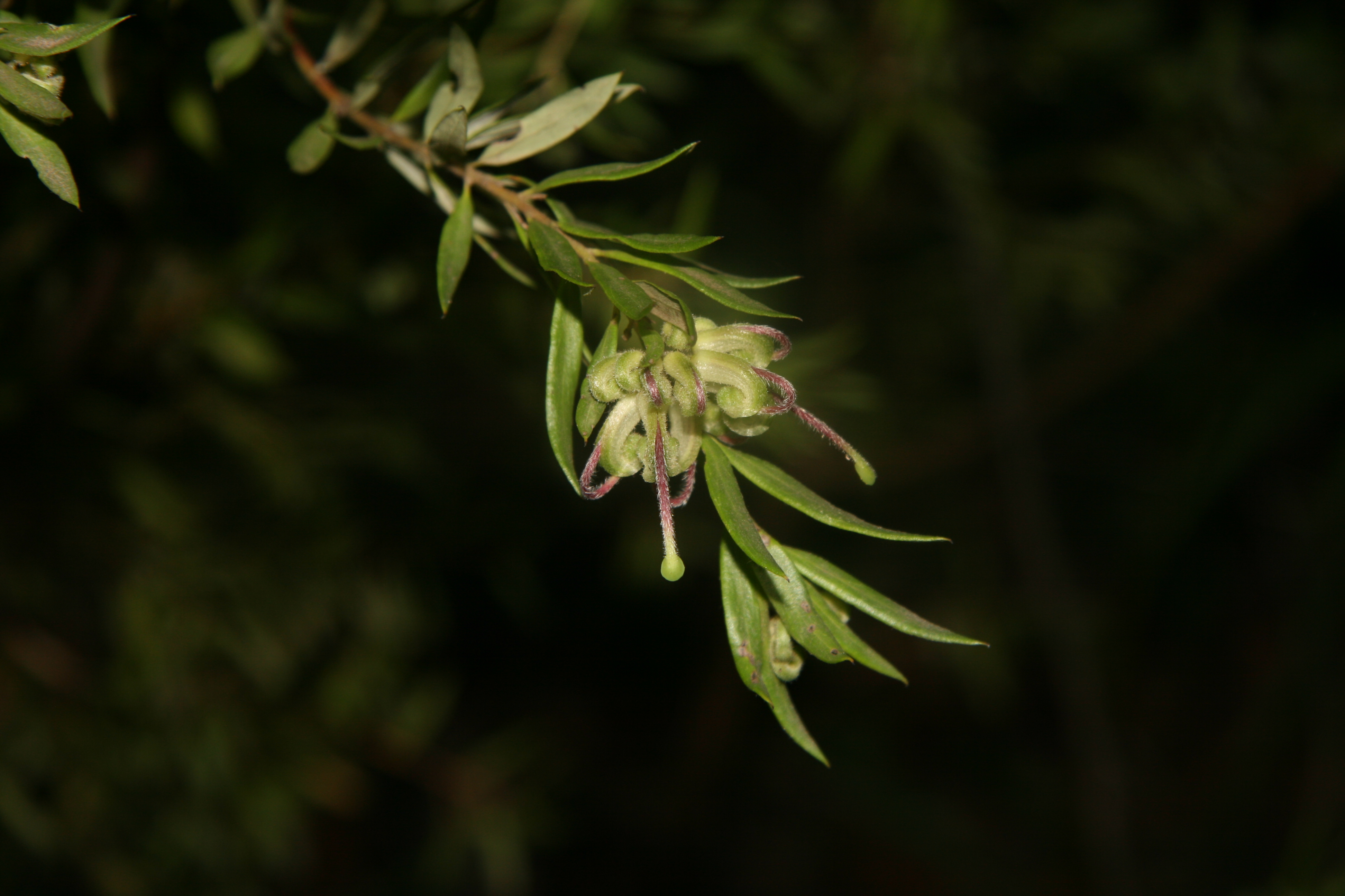 Grevillea mucronulata, Picton Form (has narrow linear leaves), Eastern side of Thirlmere Lakes National Park